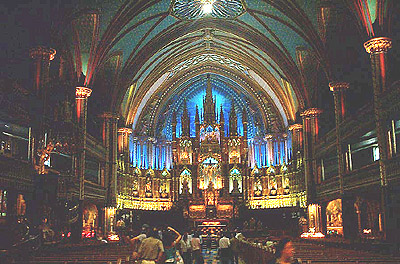 Interior of Notre-Dame de Montréal Basilica, August 2003.